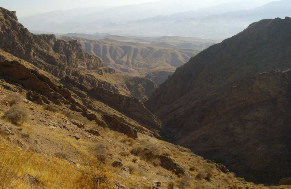 Around Lamsar Castle